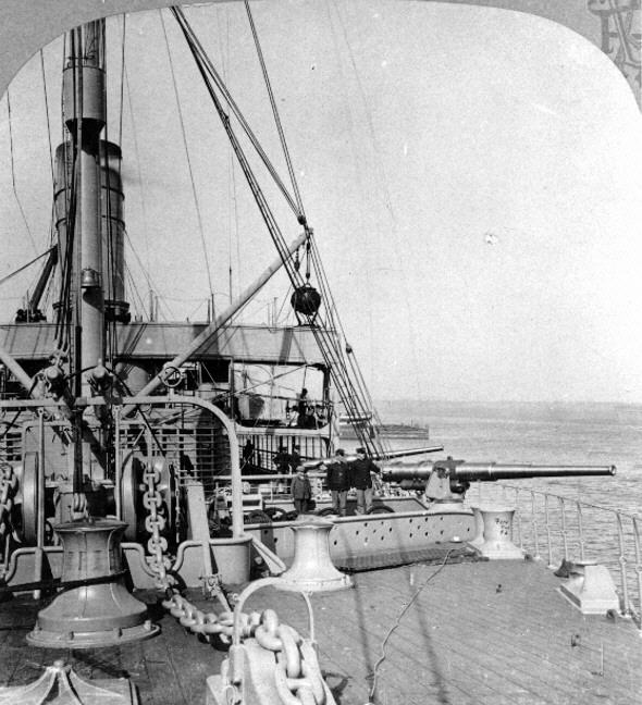 USS St. Paul (1898) View looking aft on her forecastle.